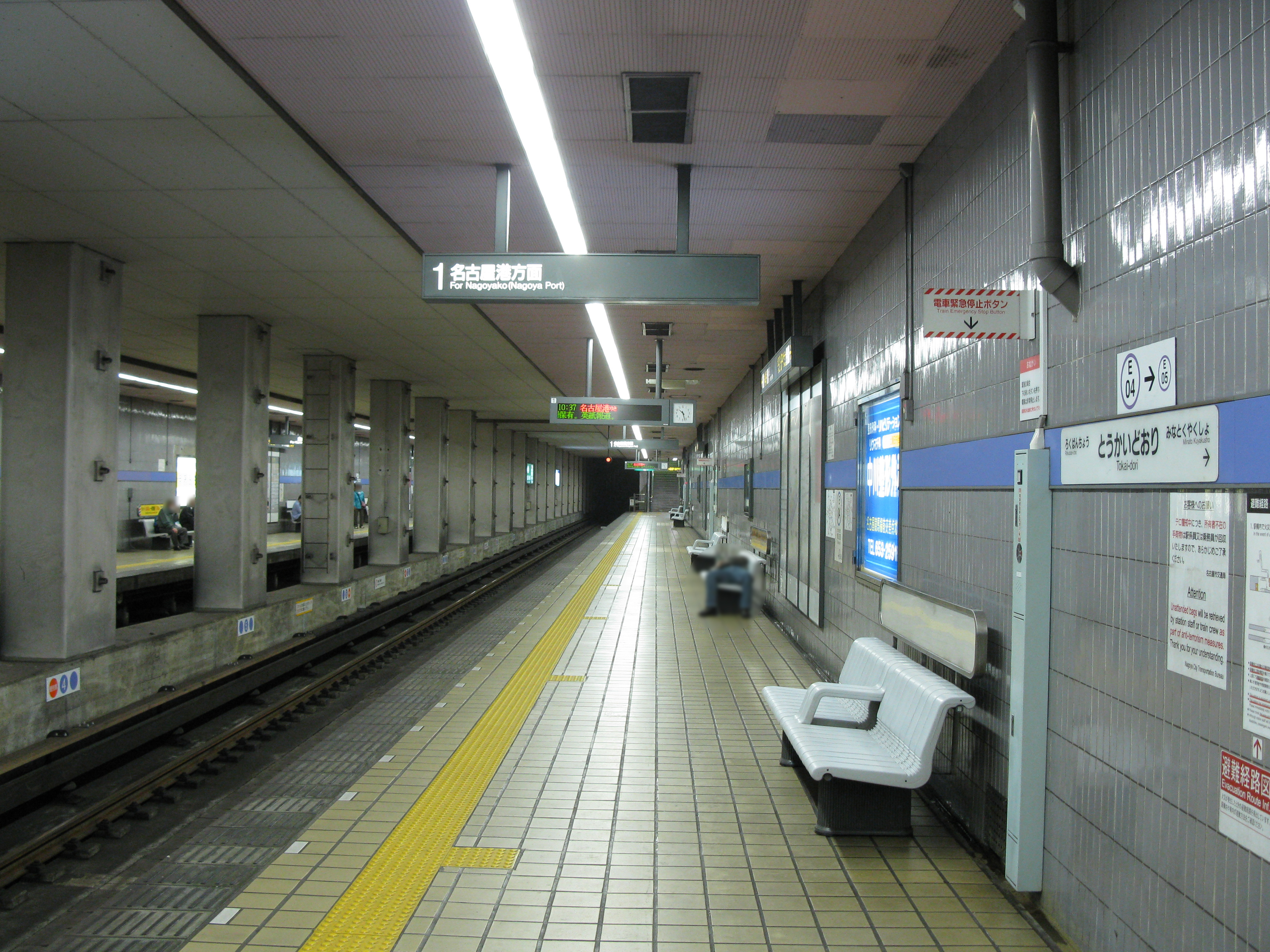 Tōkai-dōri Station platform (Nagoya Municipal Subway Meikō Line)